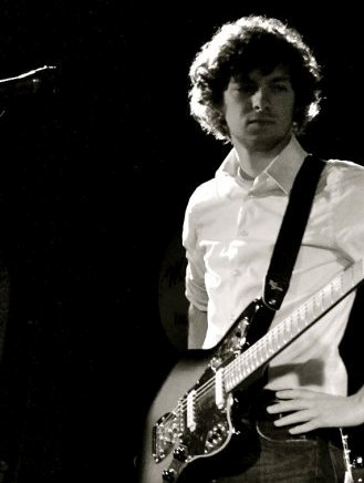 Pete performing in Akron OH at Musica.